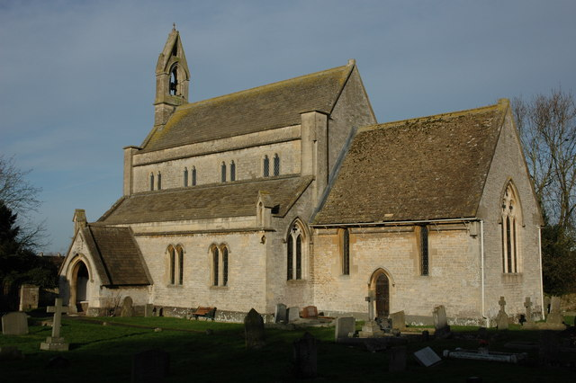 Hillesley church The church at Hillesley is dedicated to St Giles.